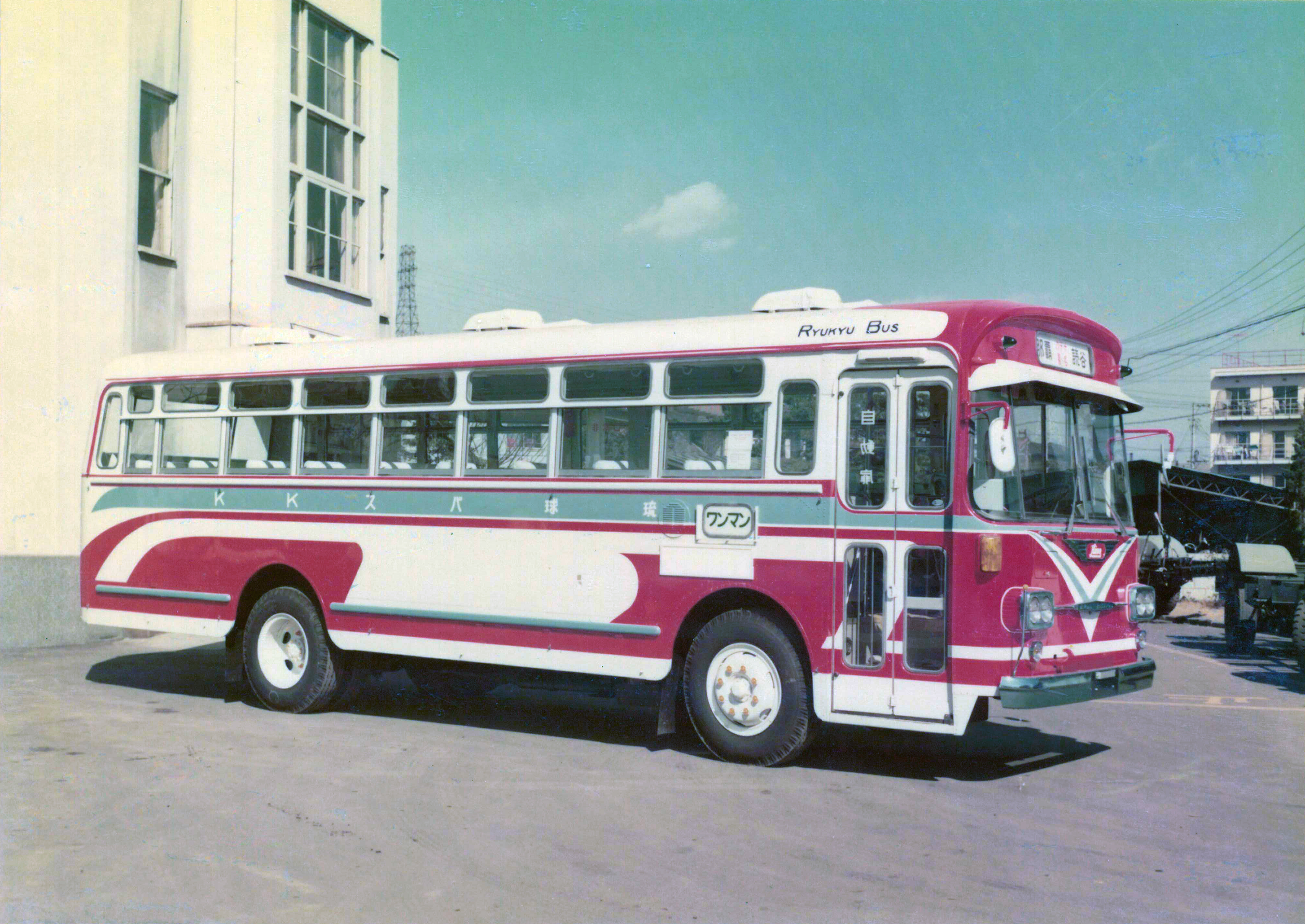 RYUKYU BUS HINO BT61